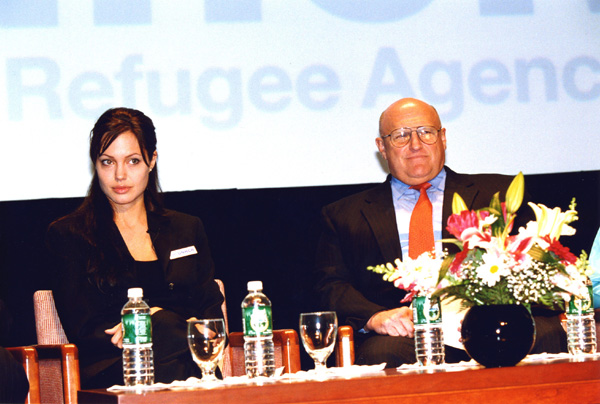 Angelina Jolie and Deputy Secretary Armitage at Commemoration of World Refugee Day